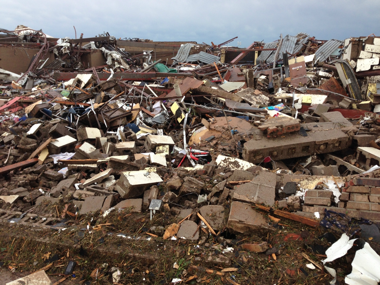 2013 Moore tornado damage at Briarwood Elementary School, EF5 rated by NWS WFO Norman, OK